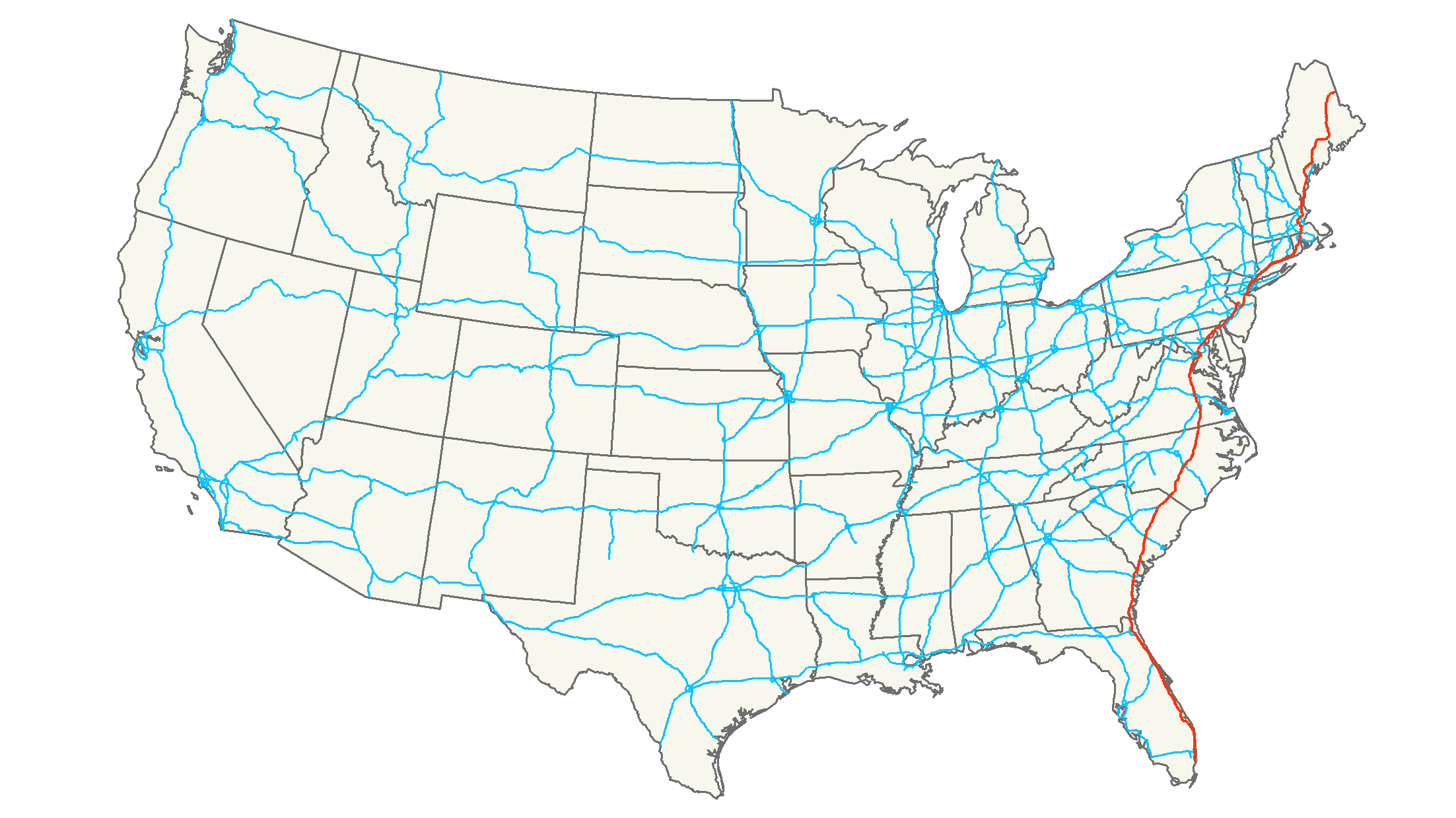 Map of Interstate 95